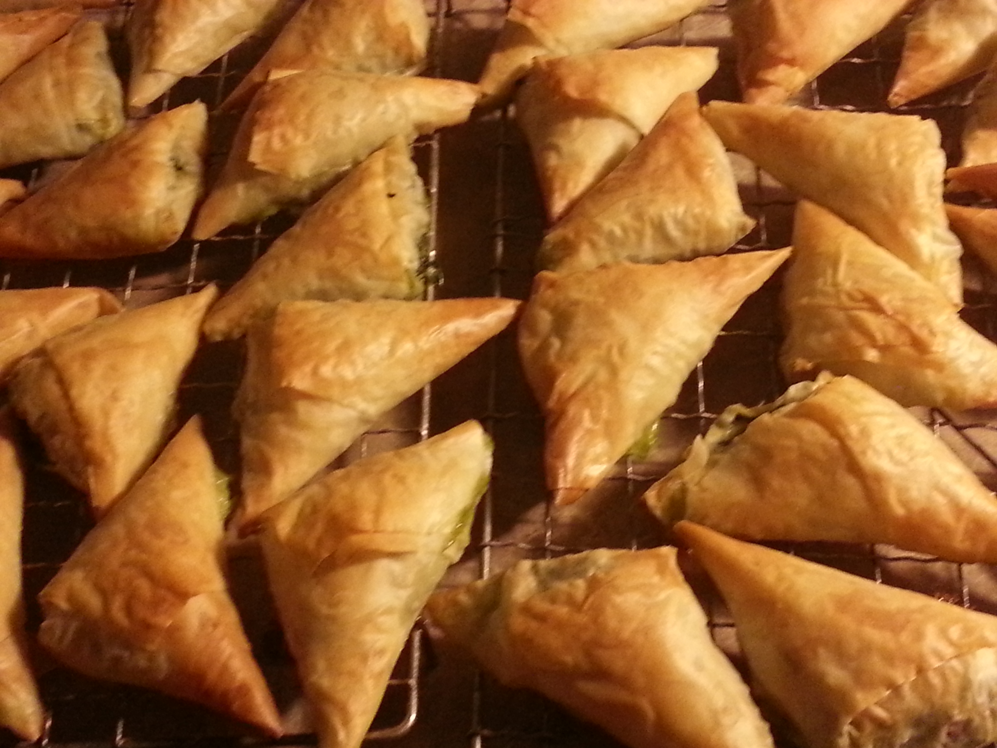 little spinach pies for a pot luck